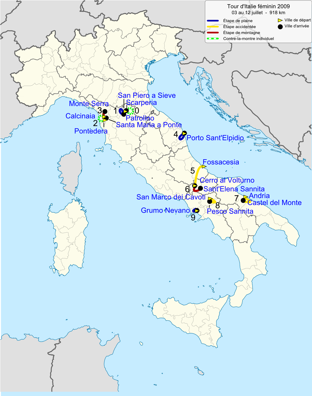 Overview map of the Giro Donne 2009. Based on Italy_provincial_location_map. (stage itinearies are not precise).